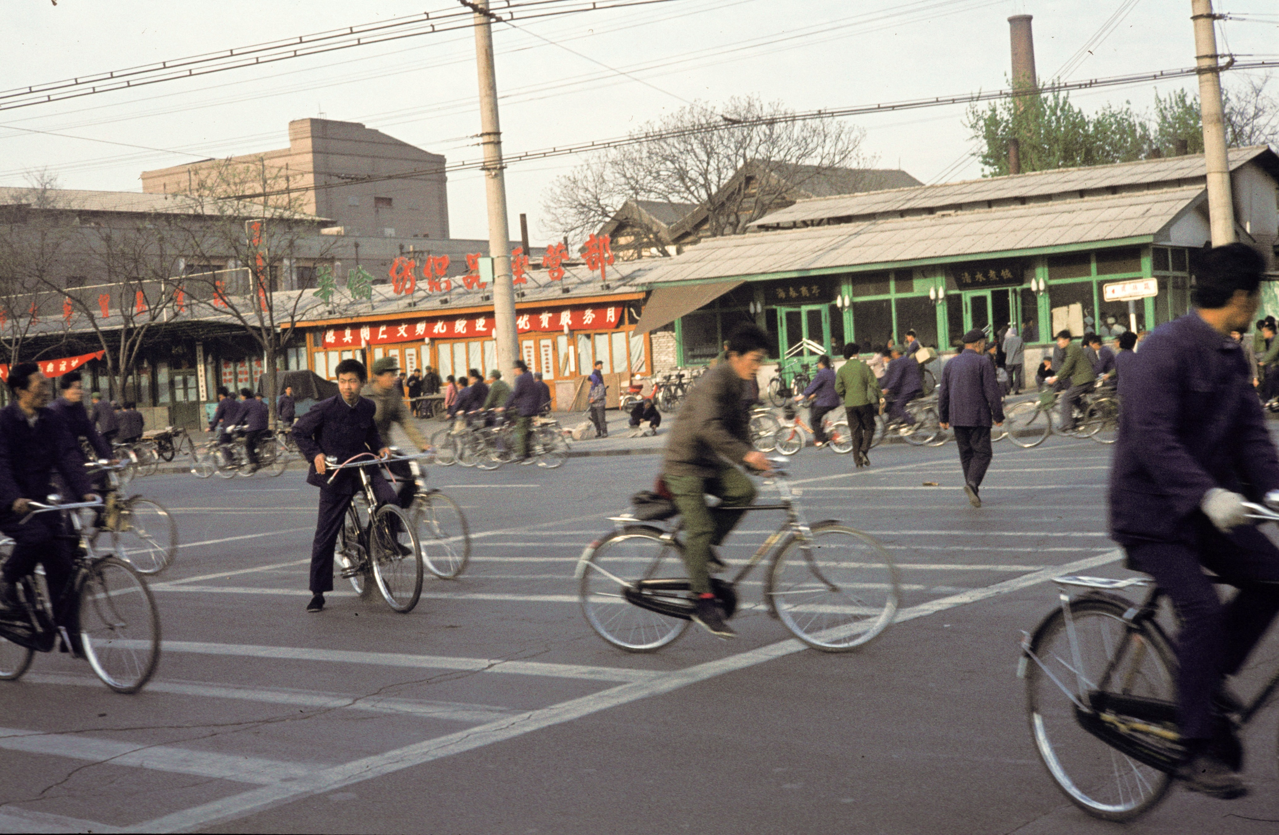 China in 1982, the road sign said "Hufang Rd"